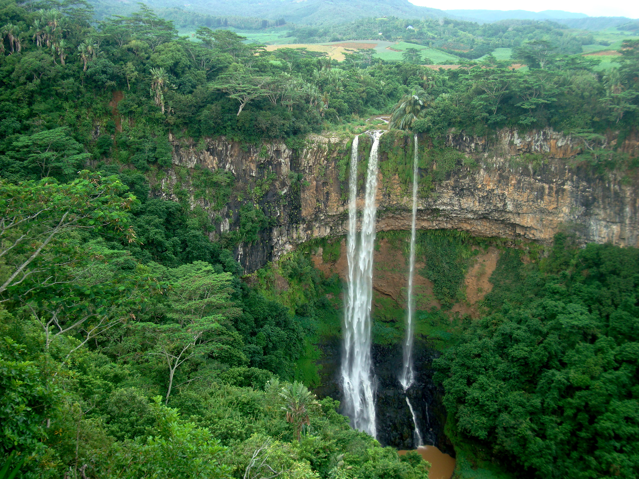 Chamarel Falls, Mauritius island.